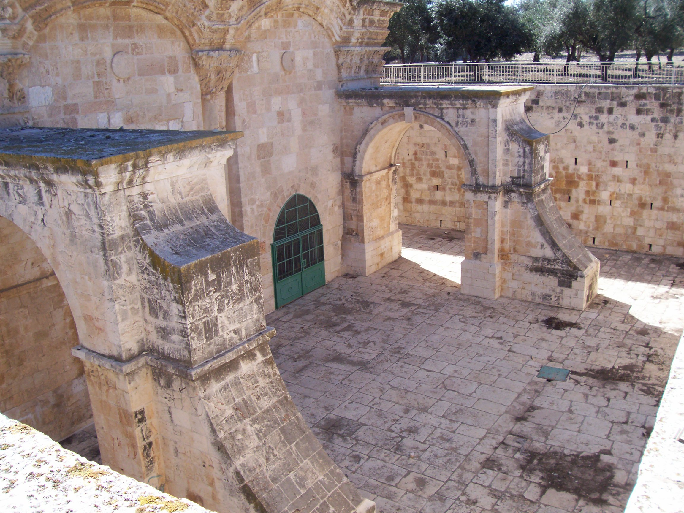 The Golden Gate from west north